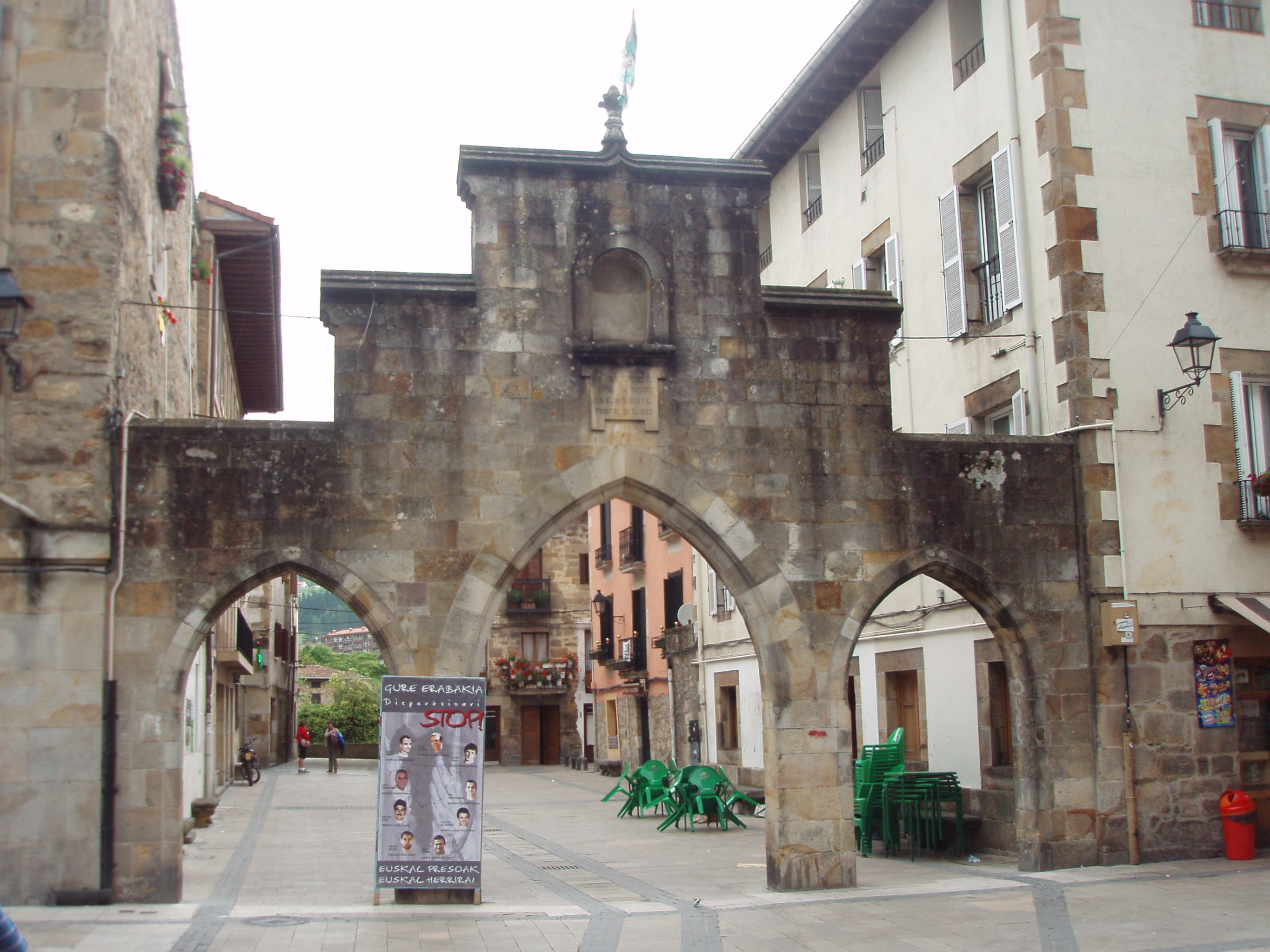 Archway in the heart of Elorrio, Spain